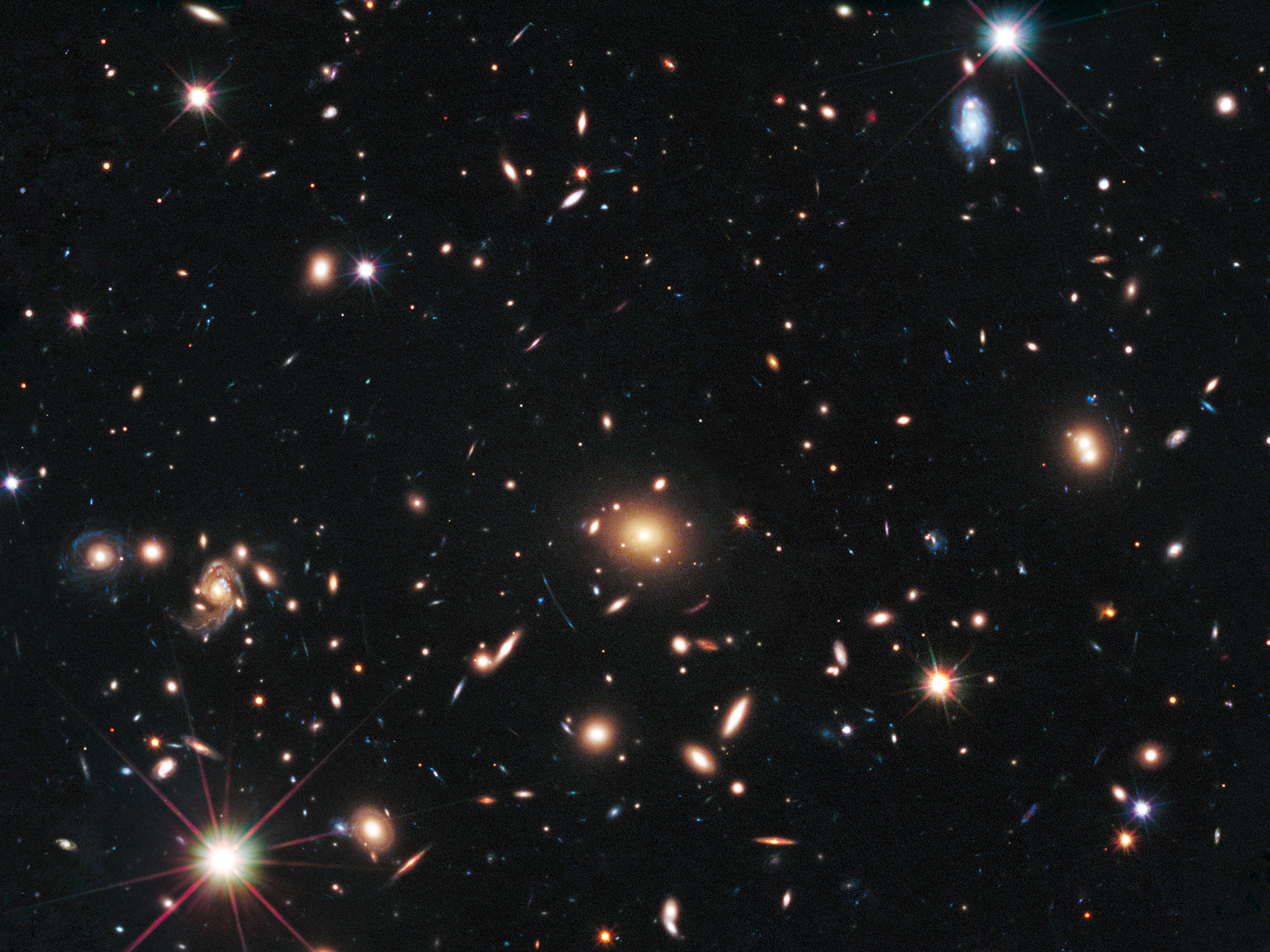 The heart of a vast cluster of galaxies called MACSJ1720+35 is shown in this image, taken in visible and near-infrared light by the NASA/ESA Hubble Space Telescope. The galaxy cluster is so massive that its gravity distorts, brightens, and magnifies light from more distant objects behind it, an effect called gravitational lensing. In the top right an exploding star nicknamed Caracalla and located behind the cluster can just be made out. The supernova is a member of a special class of exploding star called Type Ia, prized by astronomers because it provides a consistent level of peak brightness that makes it reliable for making distance estimates. Finding a gravitationally lensed Type Ia supernova gives astronomers a unique opportunity to check the optical "prescription" of the foreground lensing cluster. The supernova is one of three exploding stars discovered in the Cluster Lensing And Supernova survey with Hubble (CLASH), and was followed up as part of a Supernova Cosmology Project HST program. CLASH is a Hubble census that probed the distribution of dark matter in 25 galaxy clusters. Dark matter cannot be seen directly but is believed to make up most of the universe's matter. The image of the galaxy cluster was taken between March and July 2012 by Hubble's Wide Field Camera 3 and Advanced Camera for Surveys.